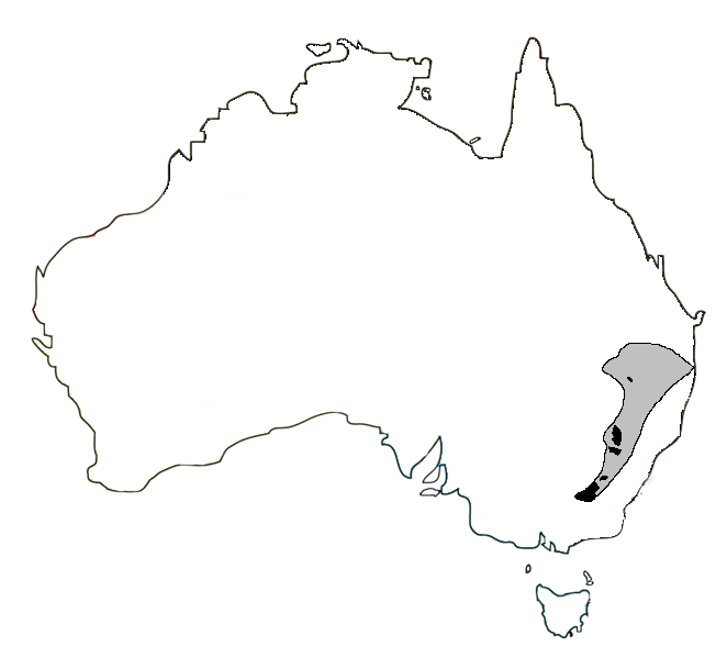 Current distribution of the Booroolong Frog (Litoria booroolongensis) in black, compared to the historic distribution in grey.